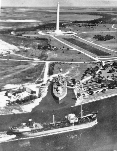 An aerial view of the San Jacinto Monument and the Battleship Texas. Another ship can be seen on the body of water.